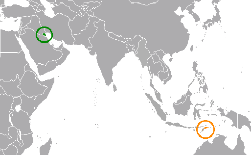 Map showing locations of both East Timor and Kuwait